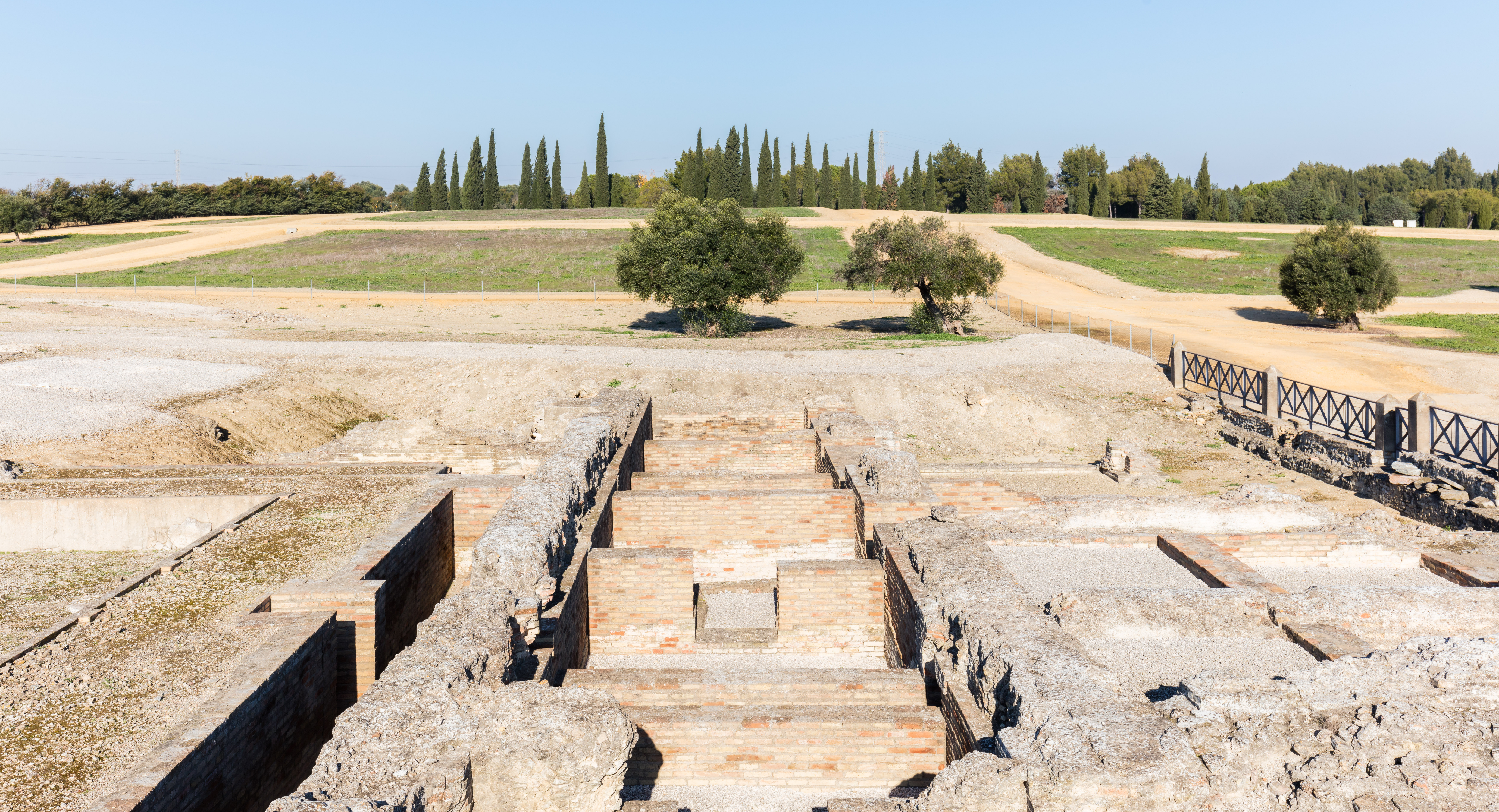 Major baths, ancient roman city of Itálica, Santiponce, Seville, Spain